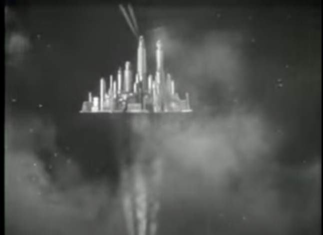 Prince Vultan's sky city from Chapter 7 of the Flash Gordon serial (1936)